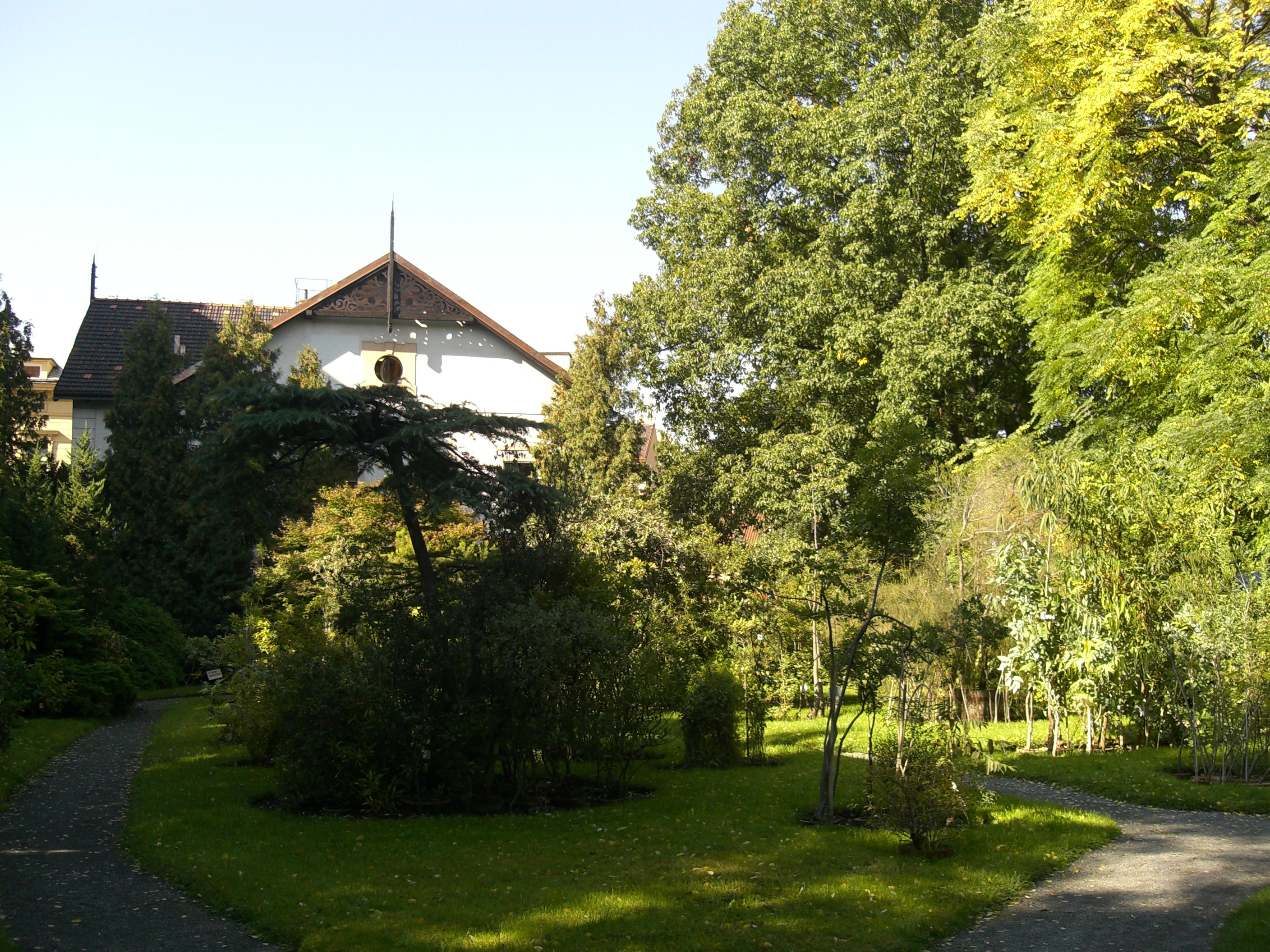 Category:The Botanical Gardens of Charles University in Albertov, Czech Republic 50°4′16.08″N 14°25′16.85″E / 50.0711333°N 14.4213472°E